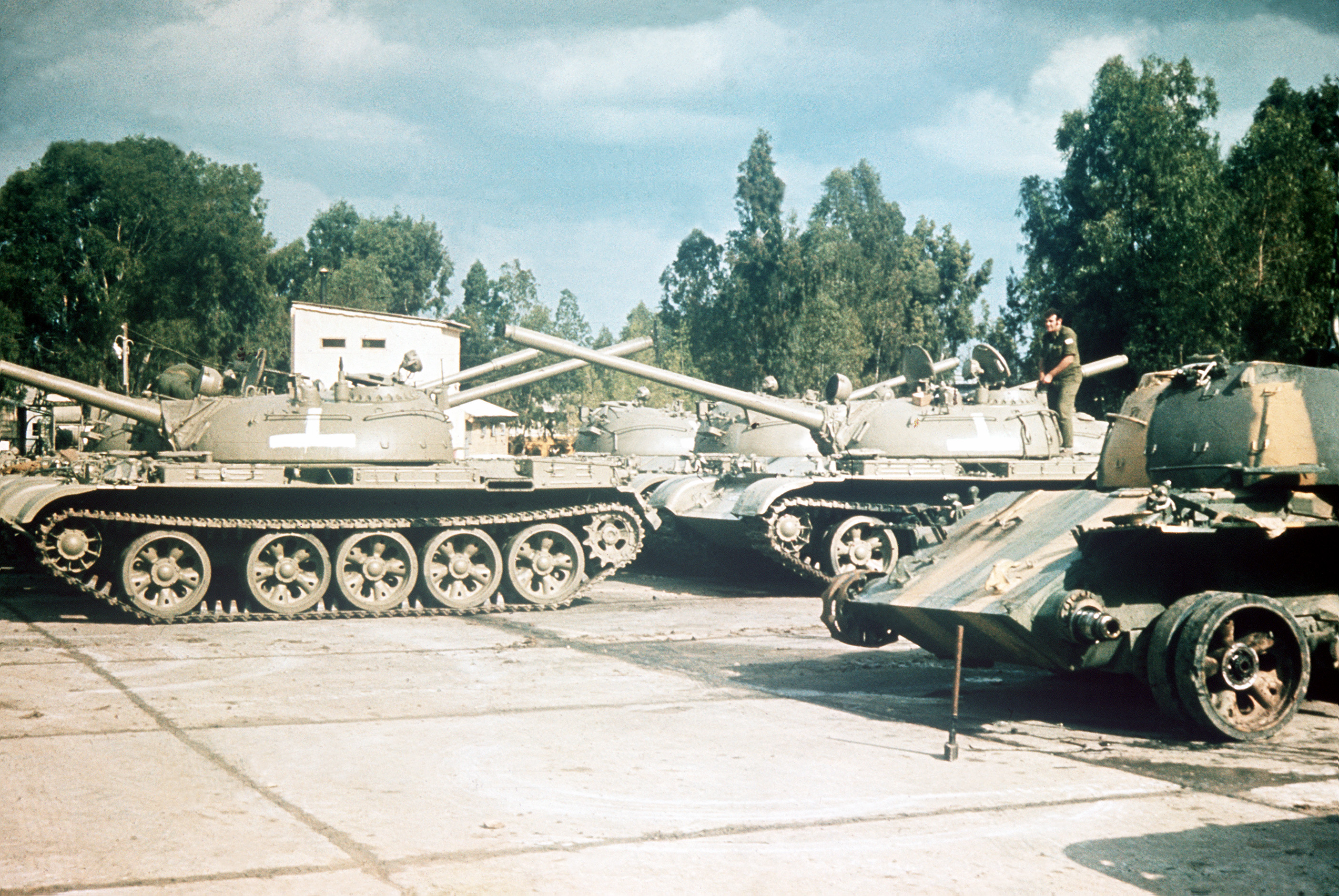 Soviet-made T-54 and T-55 main battle tanks. The two tanks in the second row are both T-55s as evidenced by the lack of the roof-mounted dome-shaped ventilator.